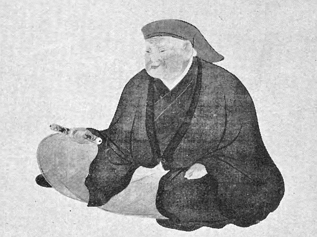 Hon'ami Kōetsu.